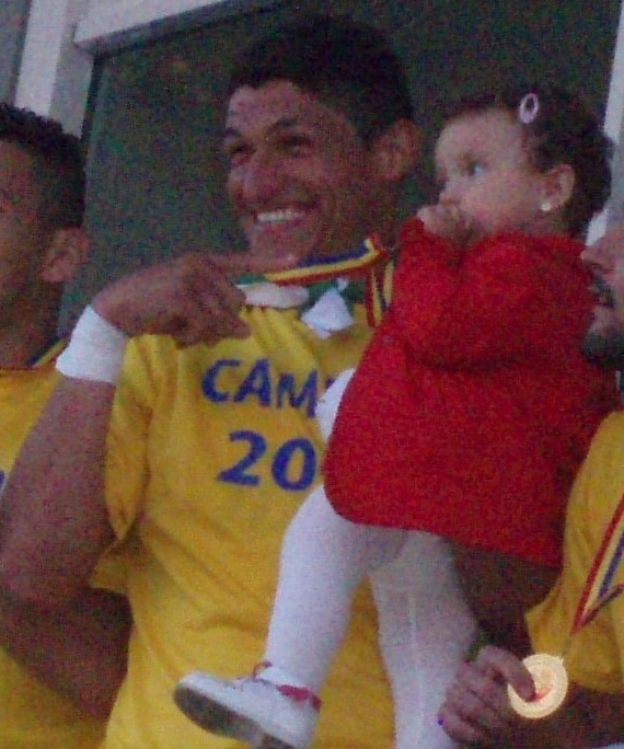 FC Sheriff